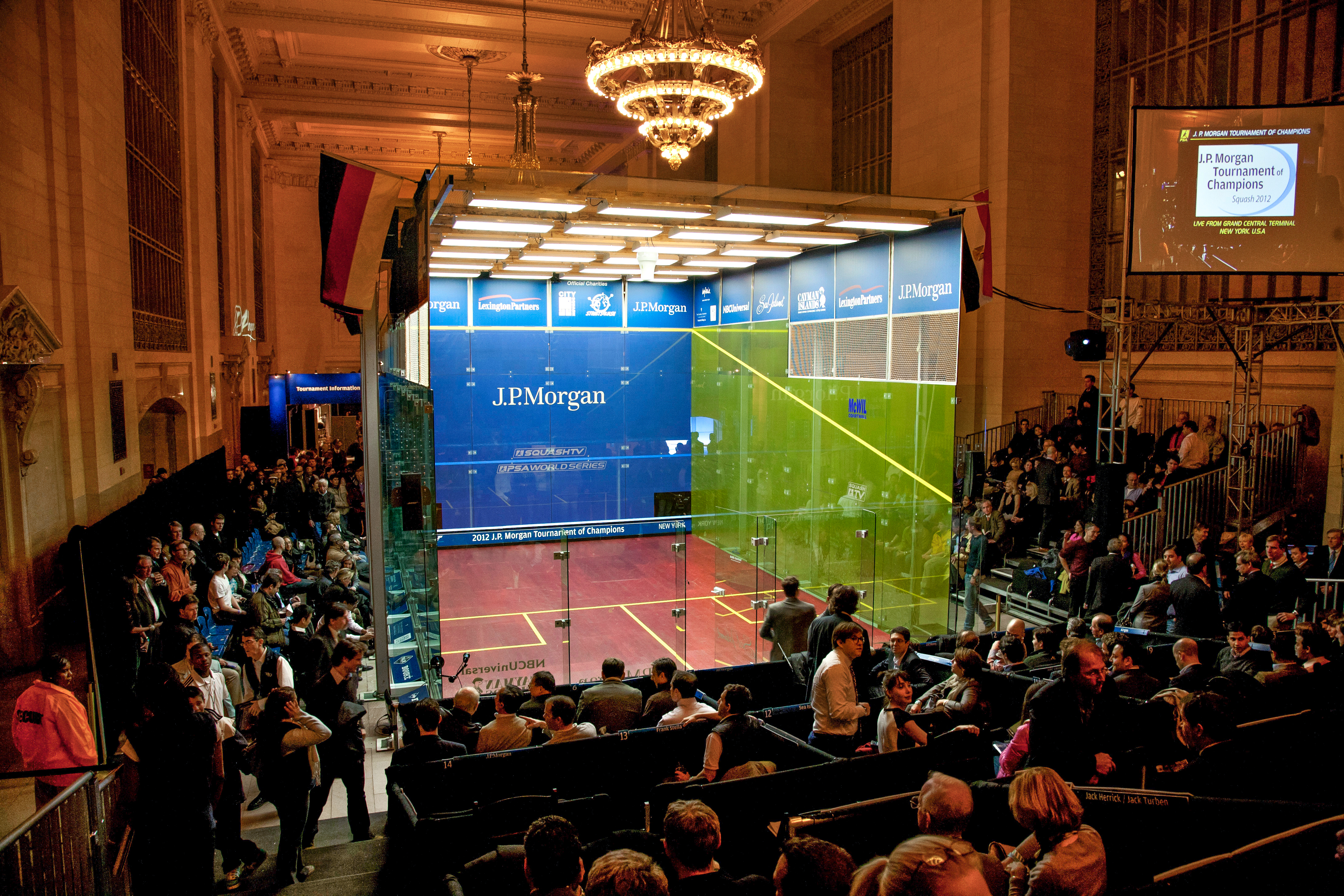 J.P. Morgan Tournament of Champions Squash 2012, from Grand Central Terminal, New York, NY on January 25. Natalie Grinham (Netherlands) defeated Nour El Sherbini (Egypt) in the women's semifinals.